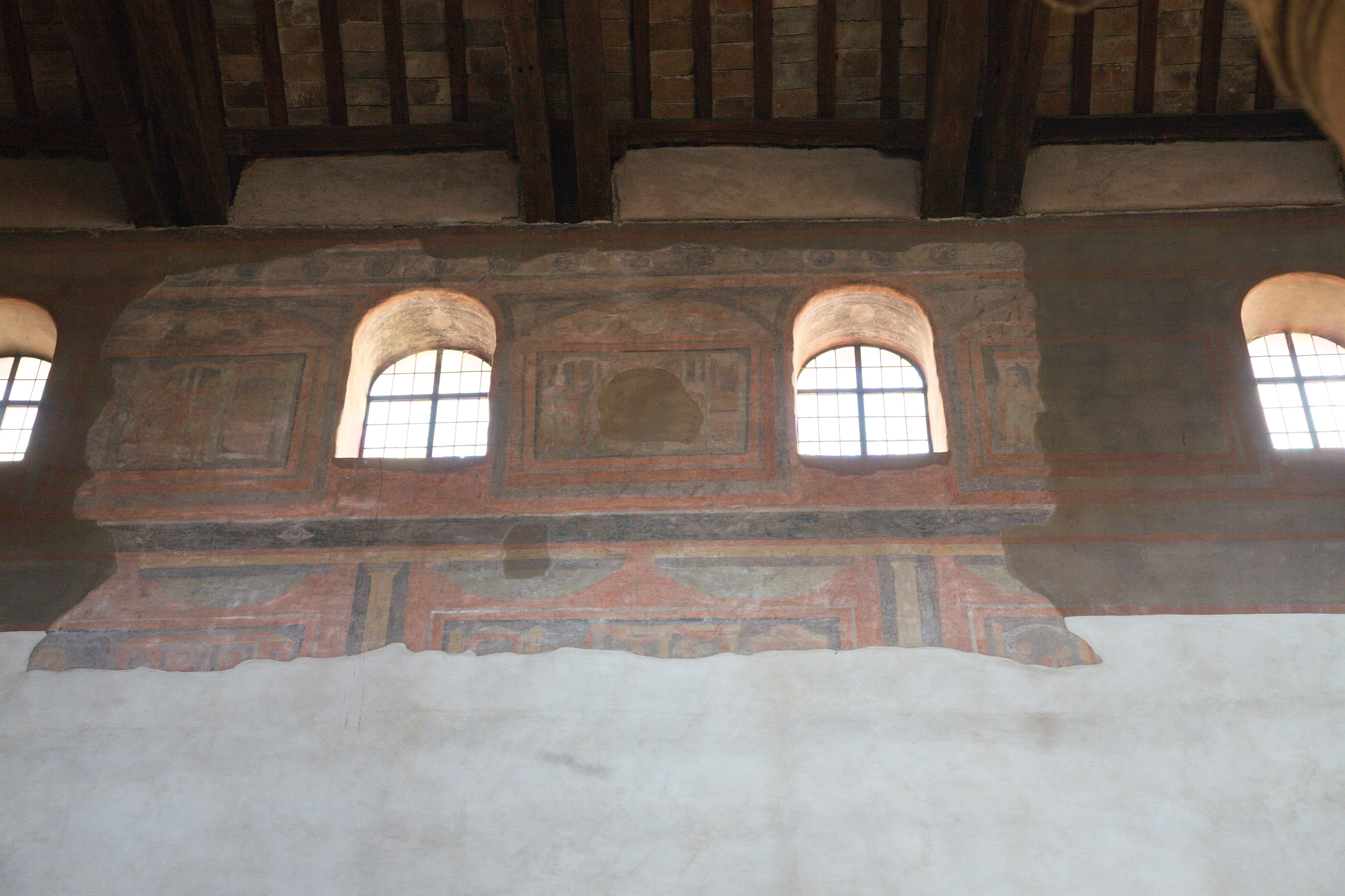 Santa Maria in Cosmedian frescos on the left side